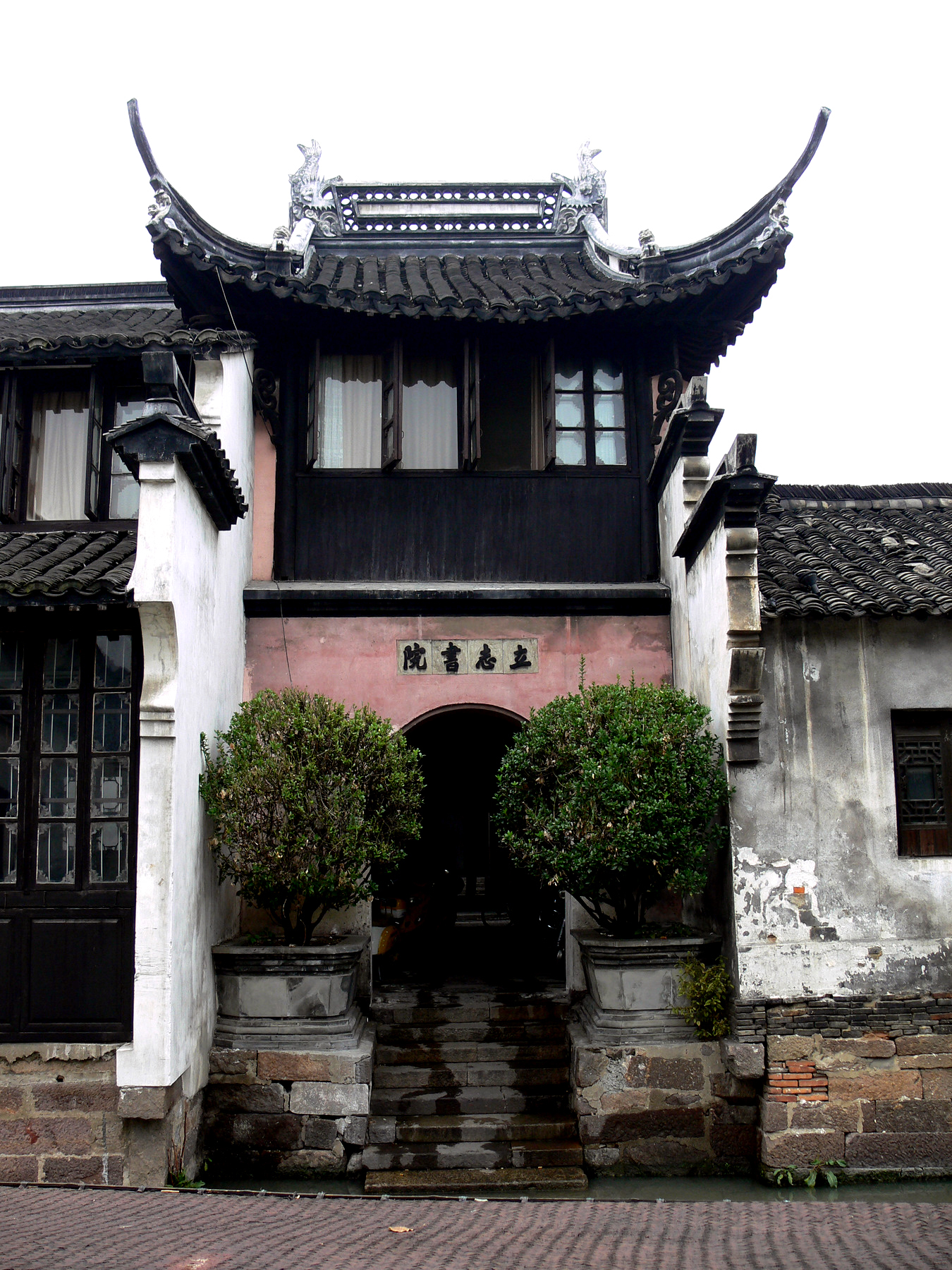 浙江桐乡乌镇立志书院